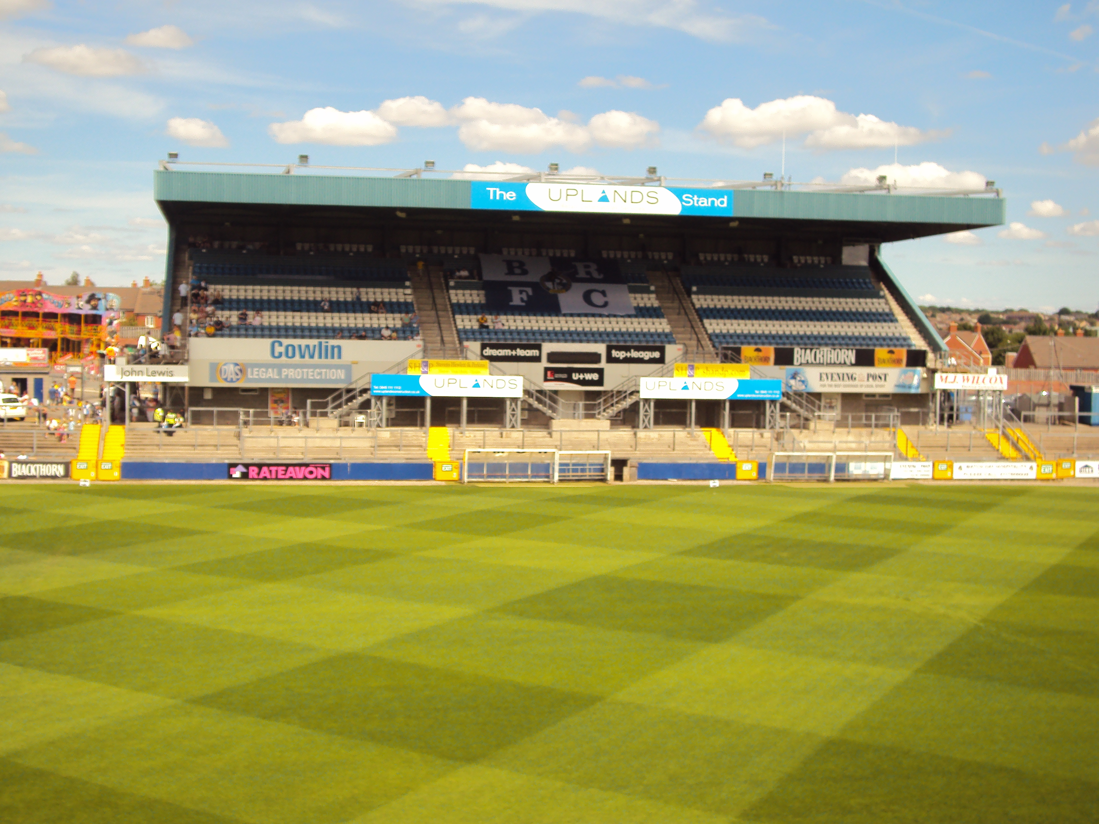 The Uplands stand at the Memorial Ground in Bristol